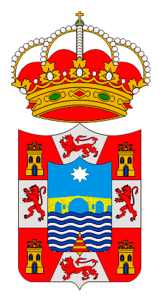 Escudo de Villa del Río